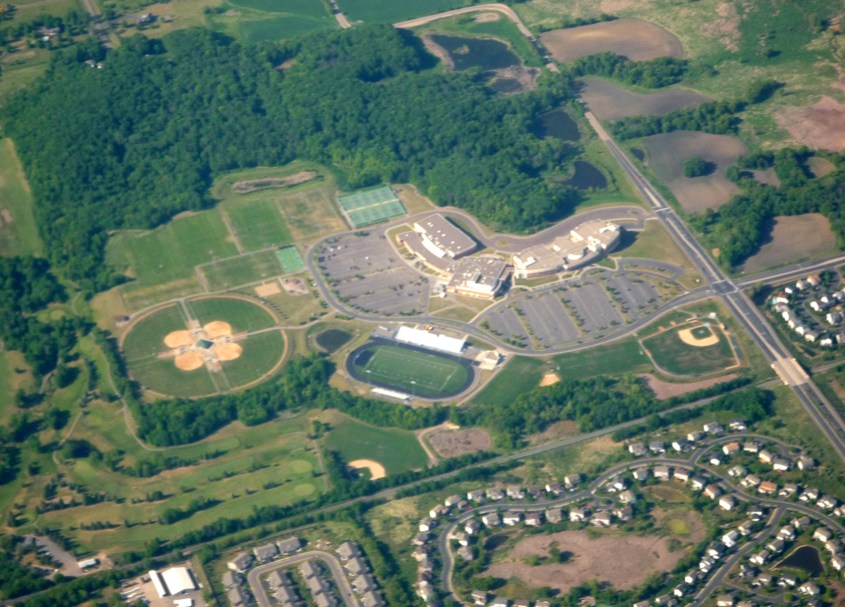 Aerial photo of Wayzata High School; Plymouth, Minnesota, USA.